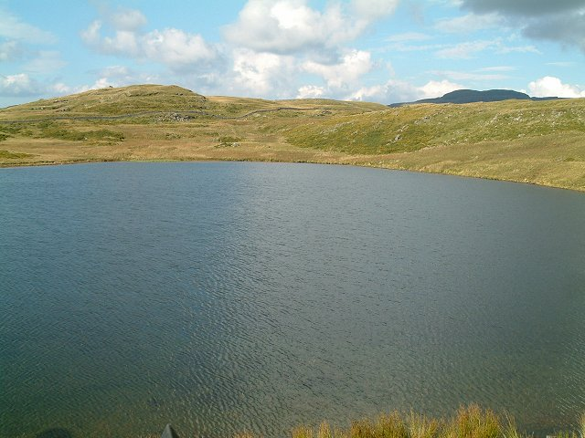 Llyn y Fedw. View north of Llyn y Fedw, north-east of Moel Goedog. The dark ridge of Craig Ddrwg can be seen in the distance.